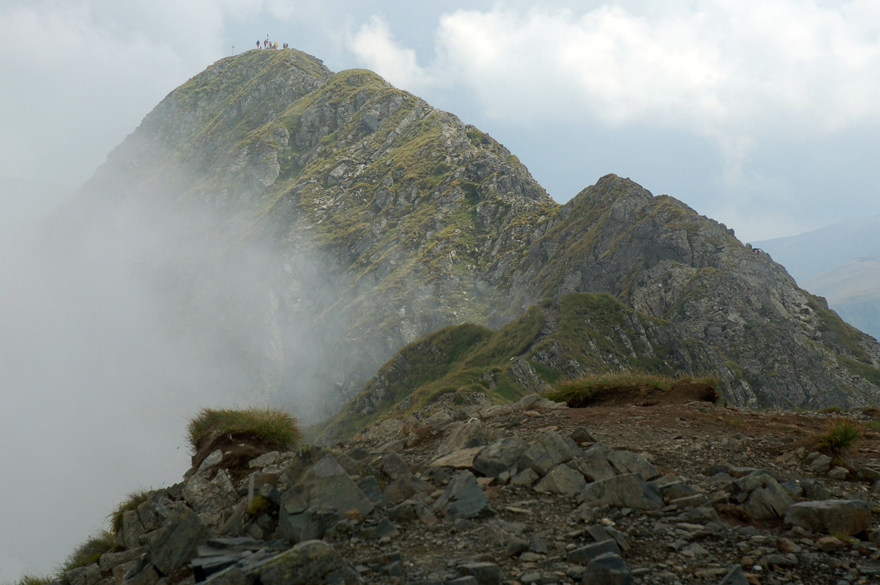 Moldoveanu Peak, sight from Vistea Mare in Făgăraş Mountains, Romania